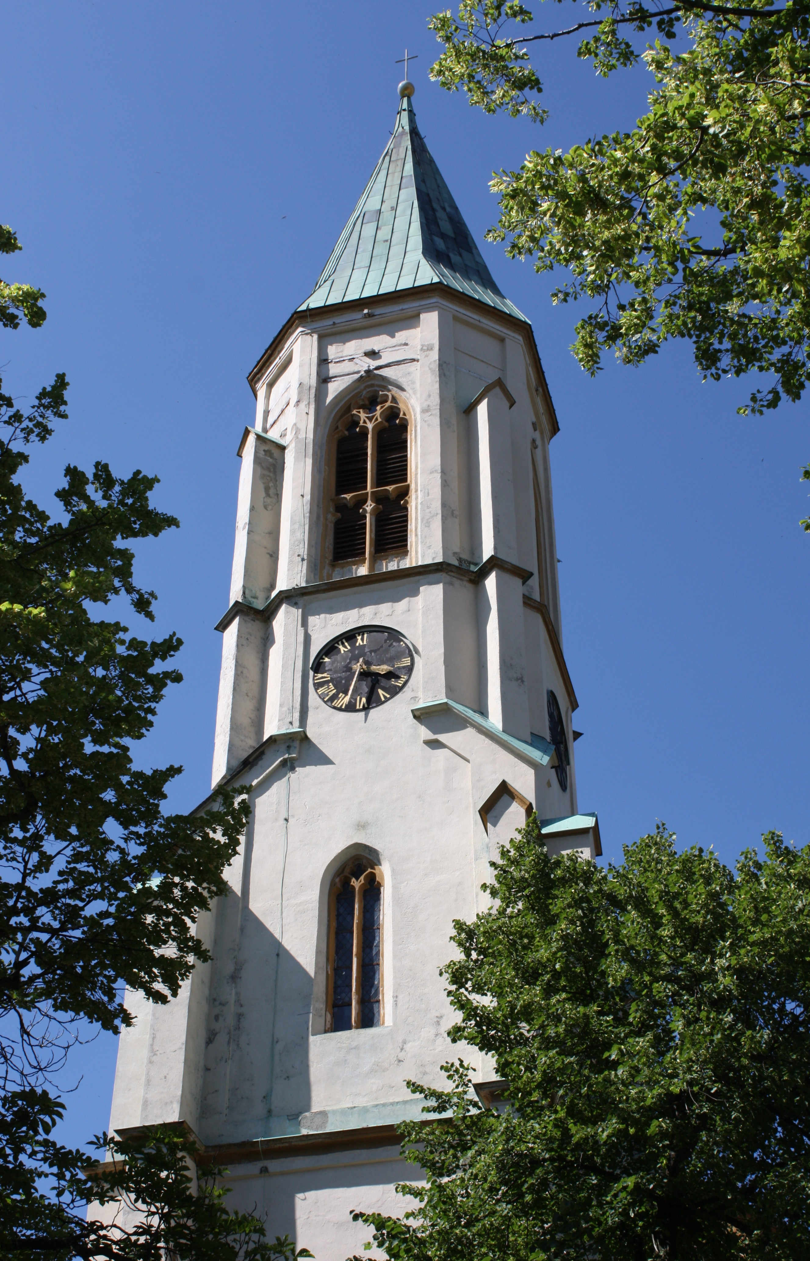 Martin Luther Church Oberwiesenthal, Tower.